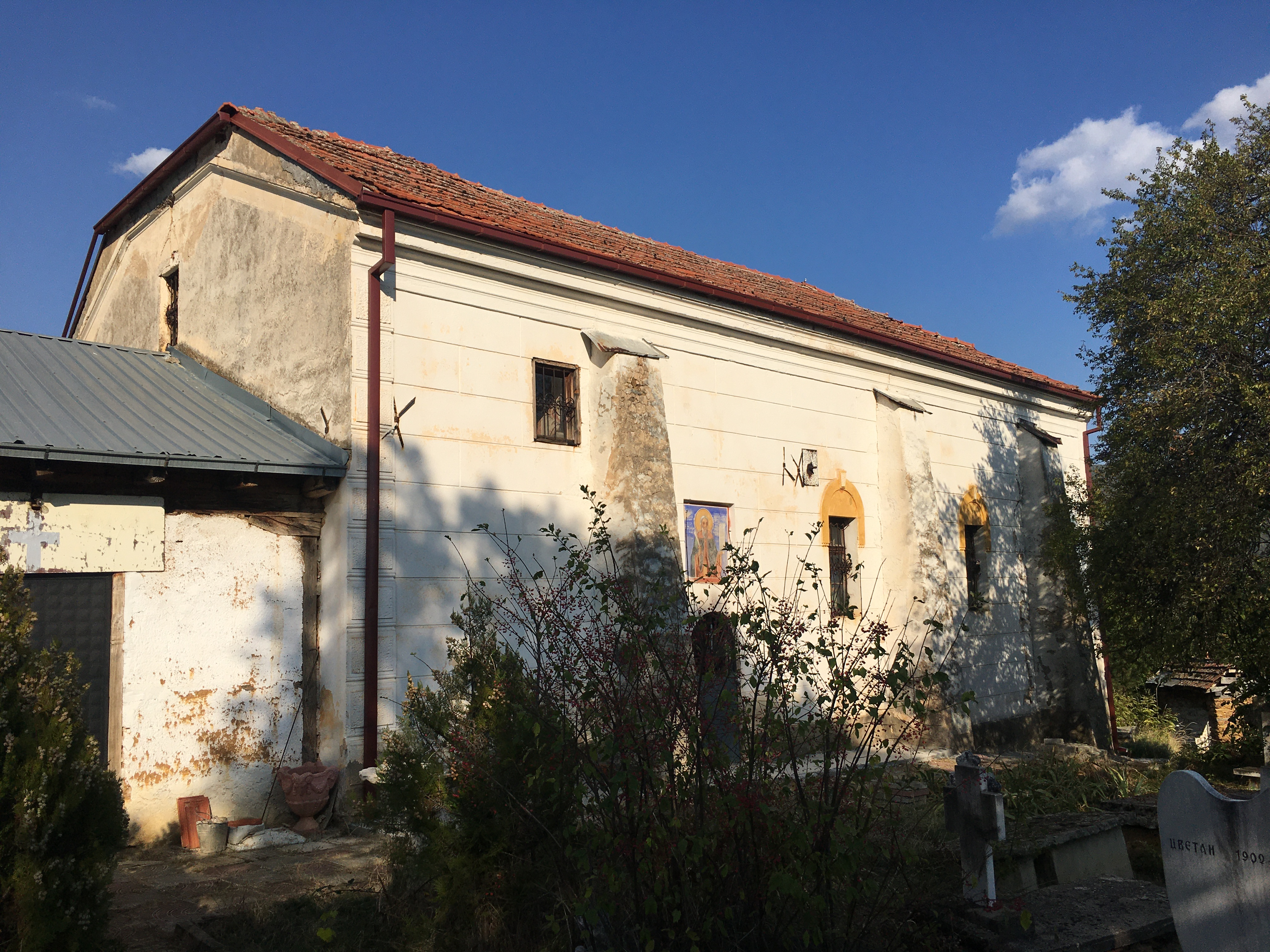 St. Elijah Church in the village of Strovija